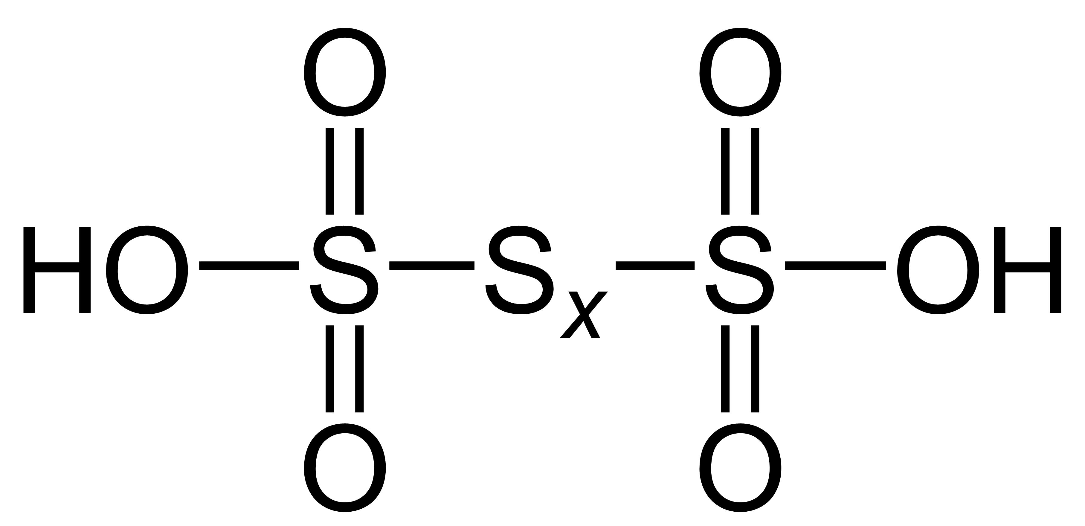 polythionic acide showing bonding